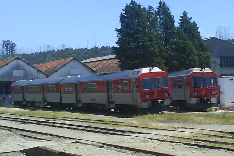 Sorefame UDD 9630